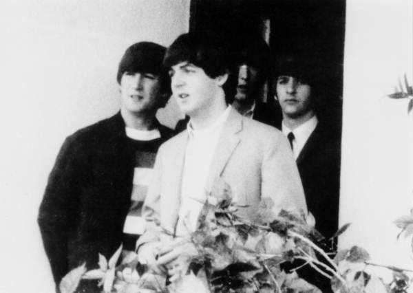 The Beatles in front of their hotel in Key West, Florida